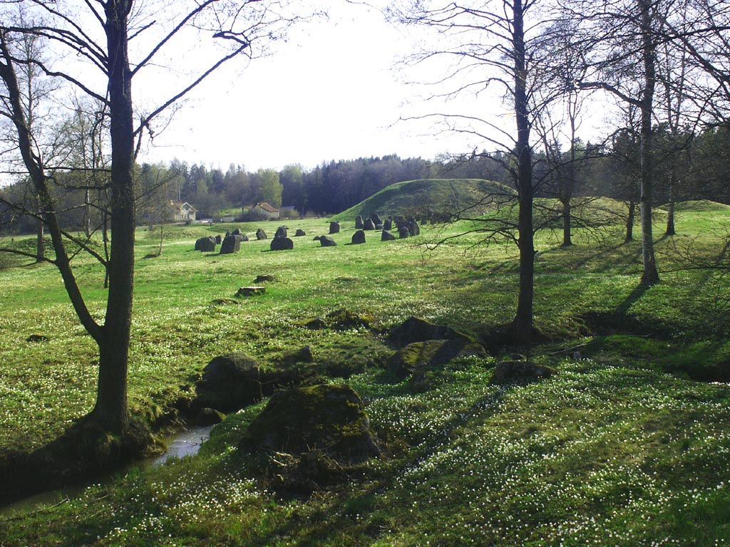 Photo taken by me personally in April 2004, Anundshög outside Västerås